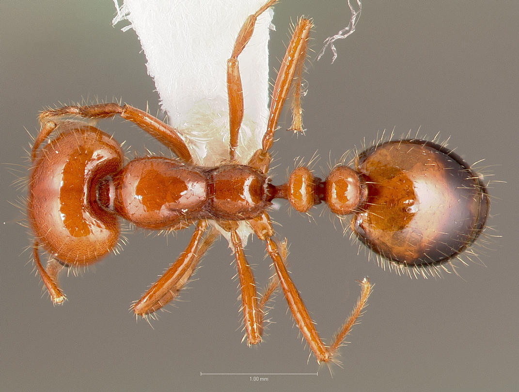 Dorsal view of ant Solenopsis xyloni specimen casent0005806.